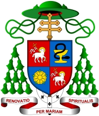 CoA